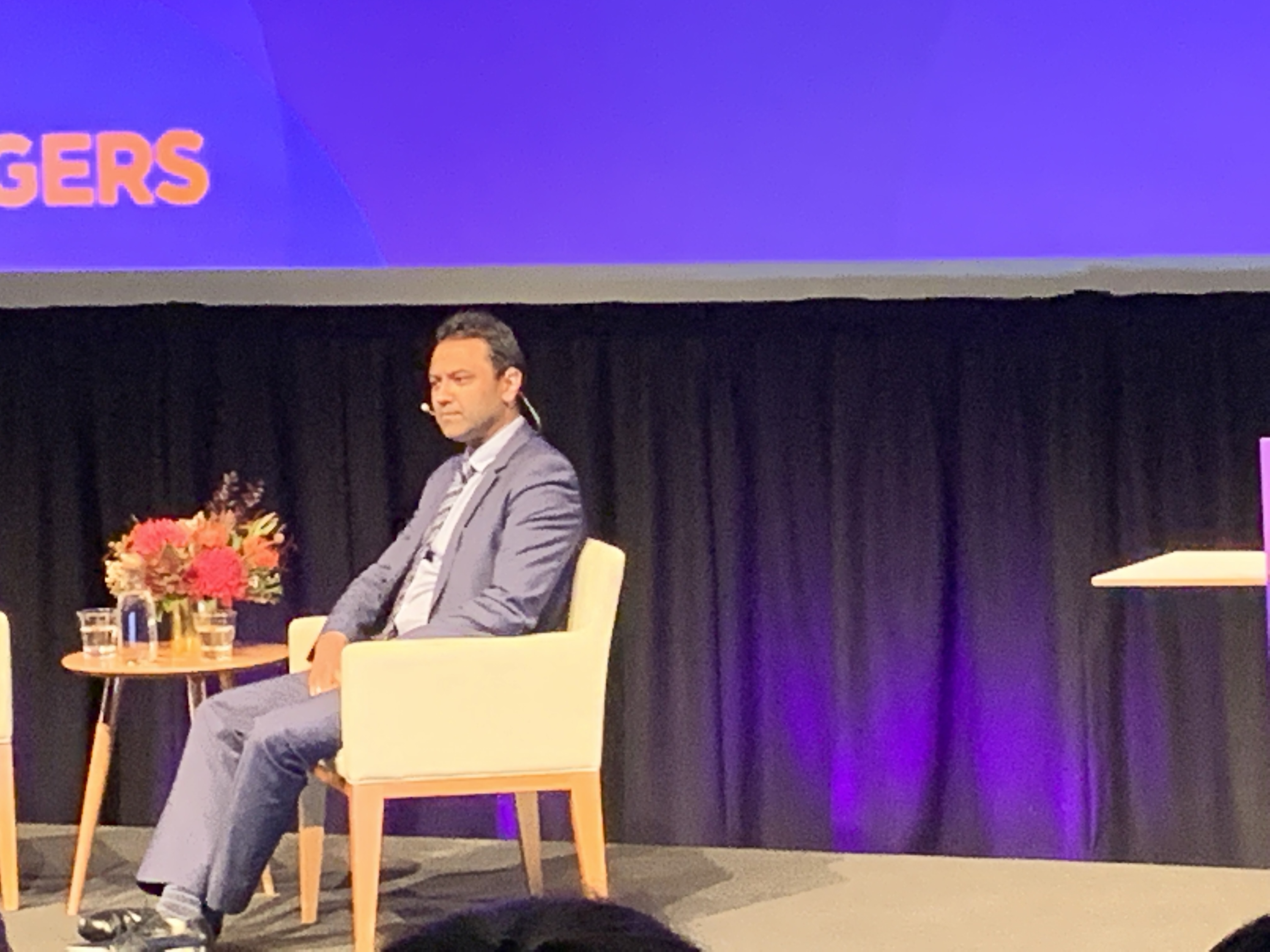 Dr Rolf Gomes, Queensland Cultural Centre, South Brisbane, Australia, October 2019